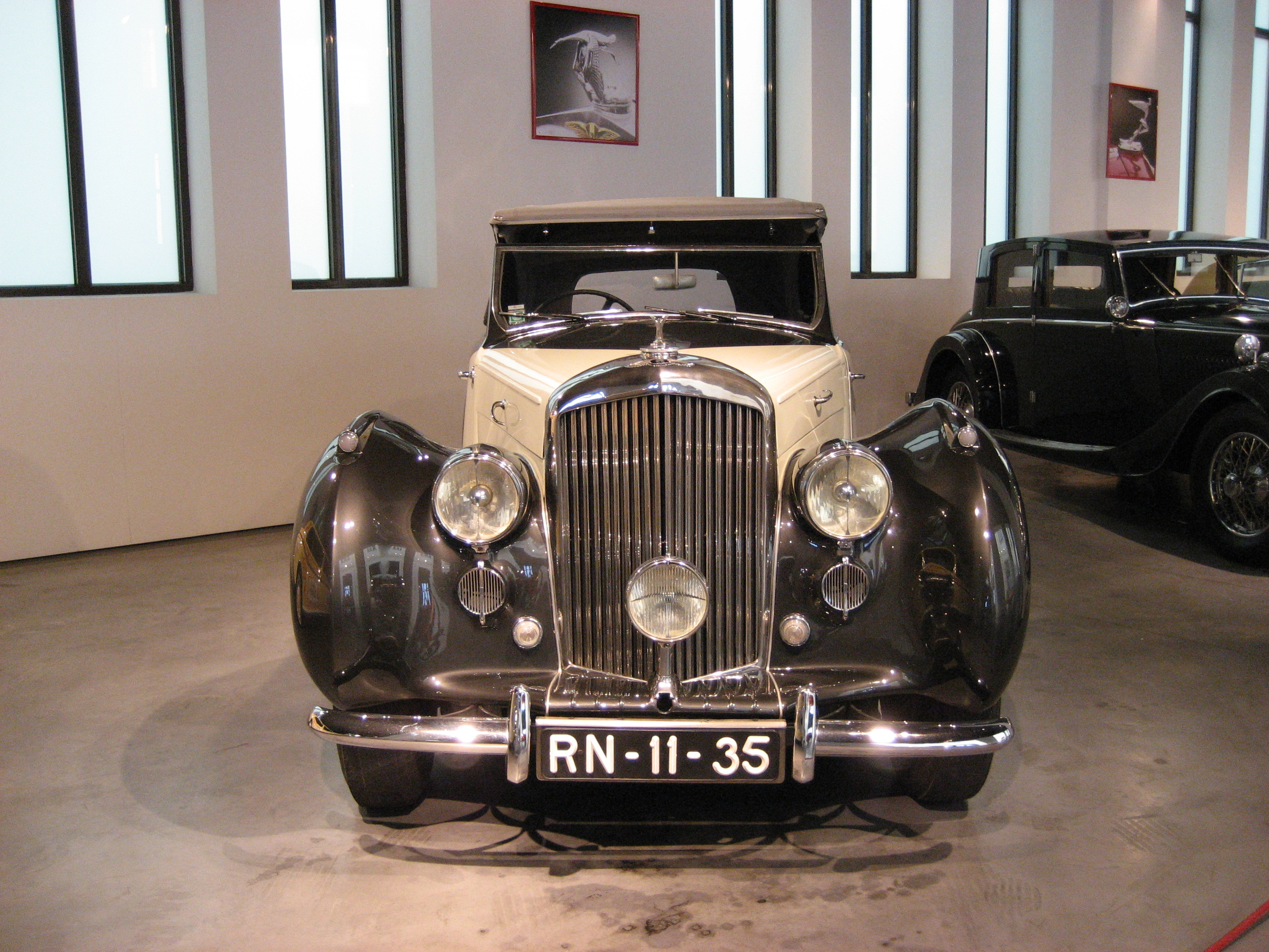 Bentley MK VI (#B385BG) Duncan Industries Ltd. Drophead Coupé 1948. The only Duncan body on a Bentley, they were better known for their creations on Healey's and Alvis.